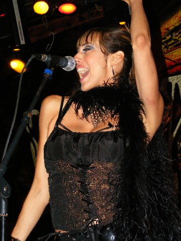 Patricia Vonne at Antone's in Austin, TX (2009). Photo by Ron Baker.